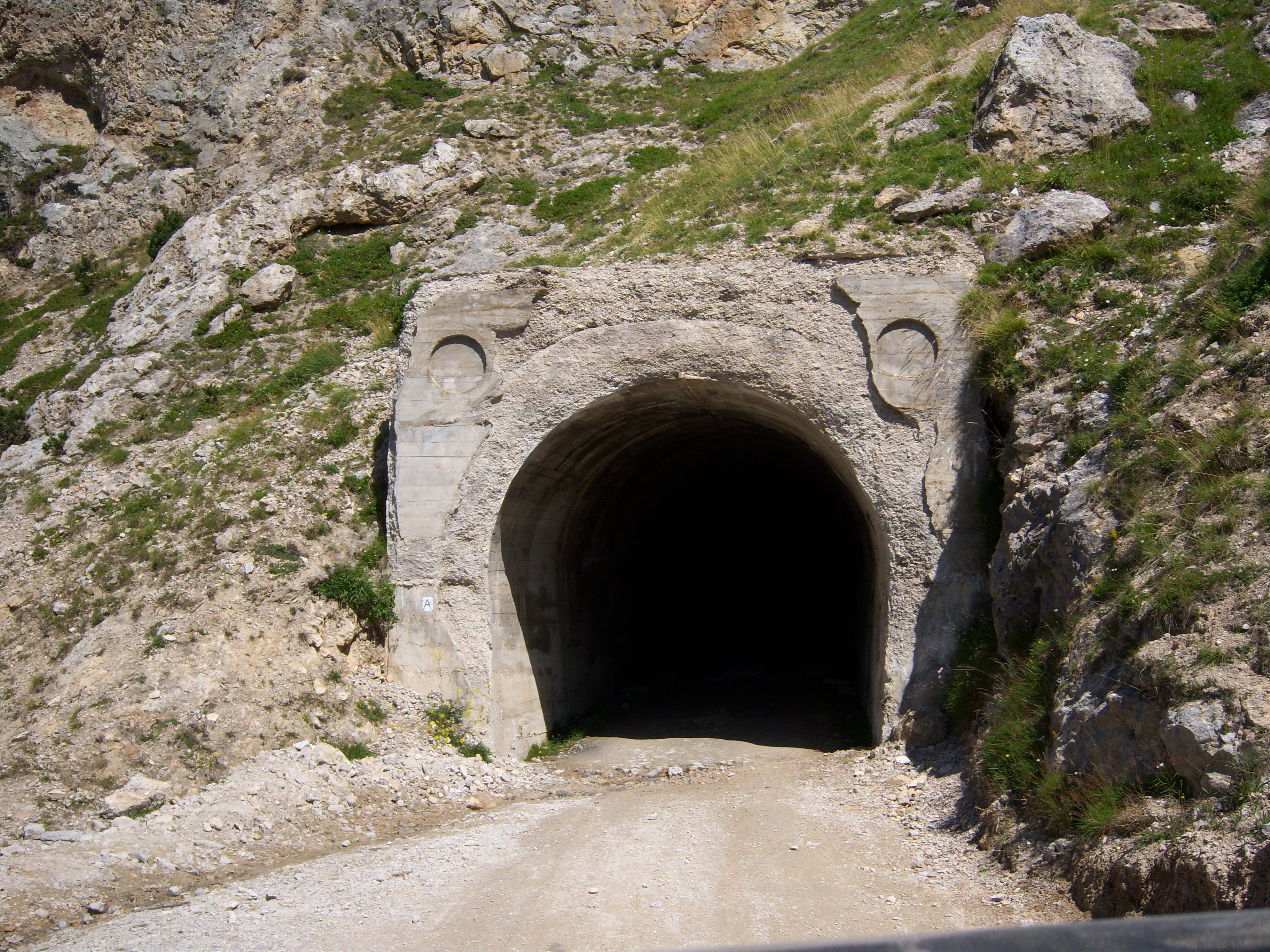 The southest way to Seguret Tunnel